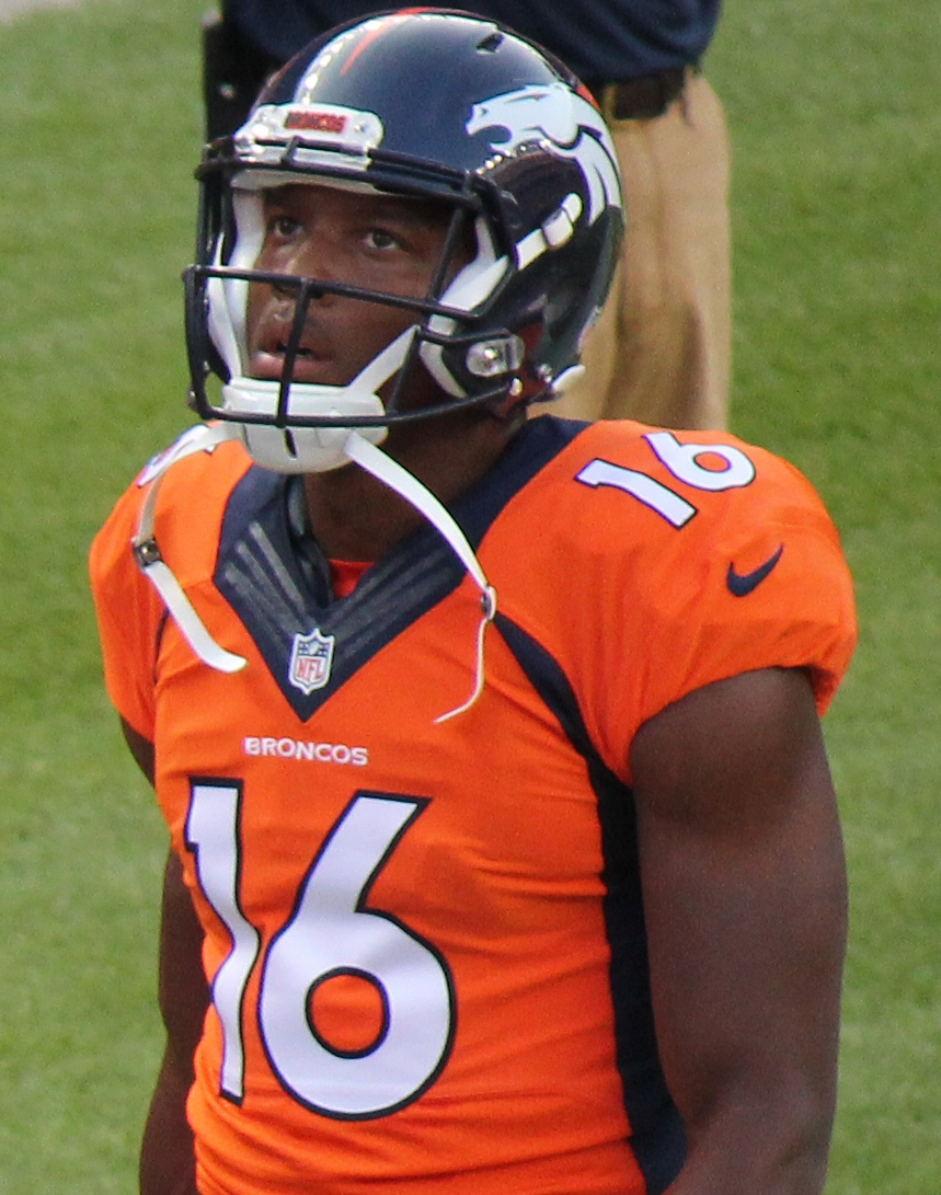 Bennie Fowler, a player on the National Football League.